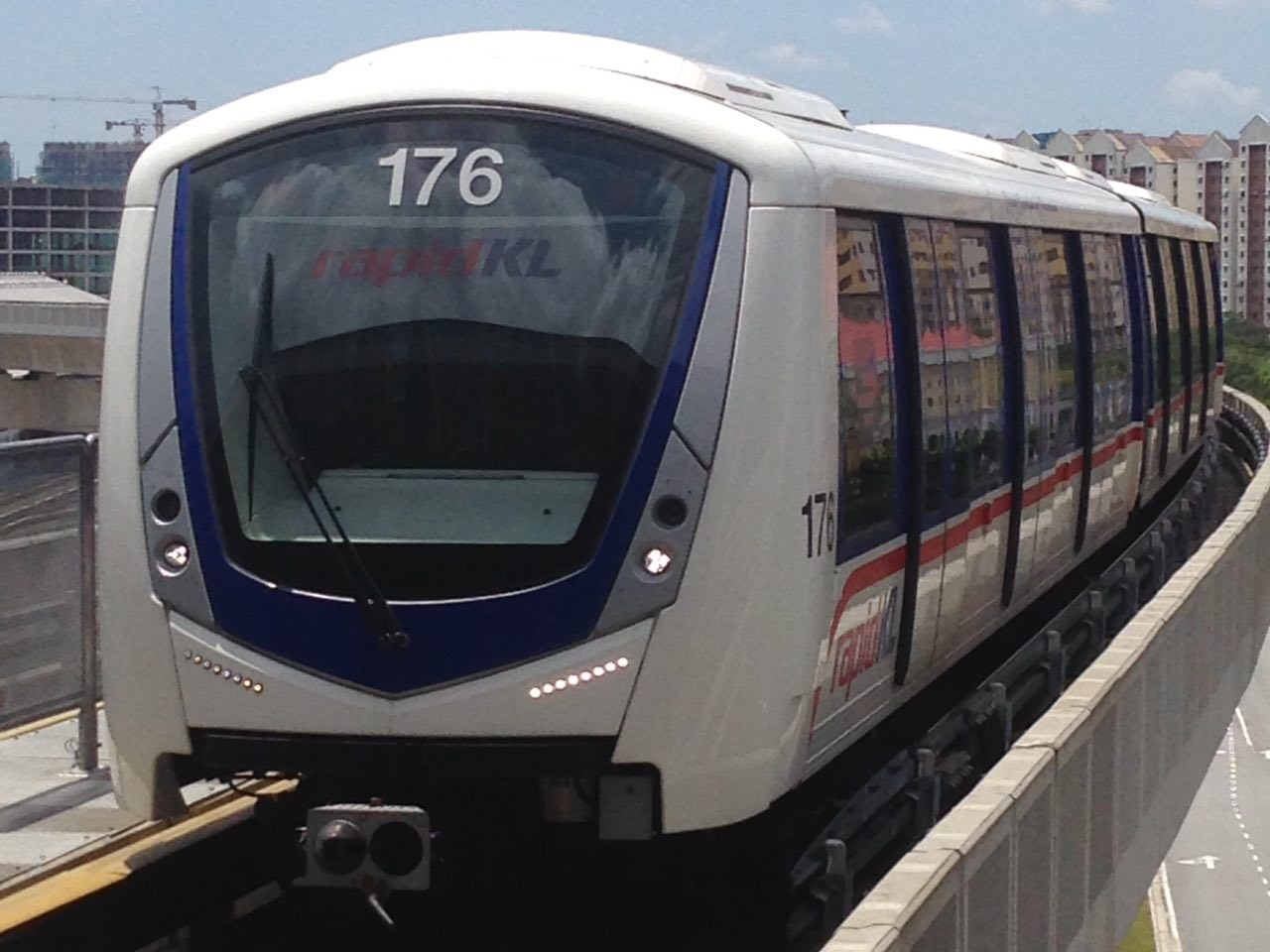 Innovia Metro 300 at Lembah Subang